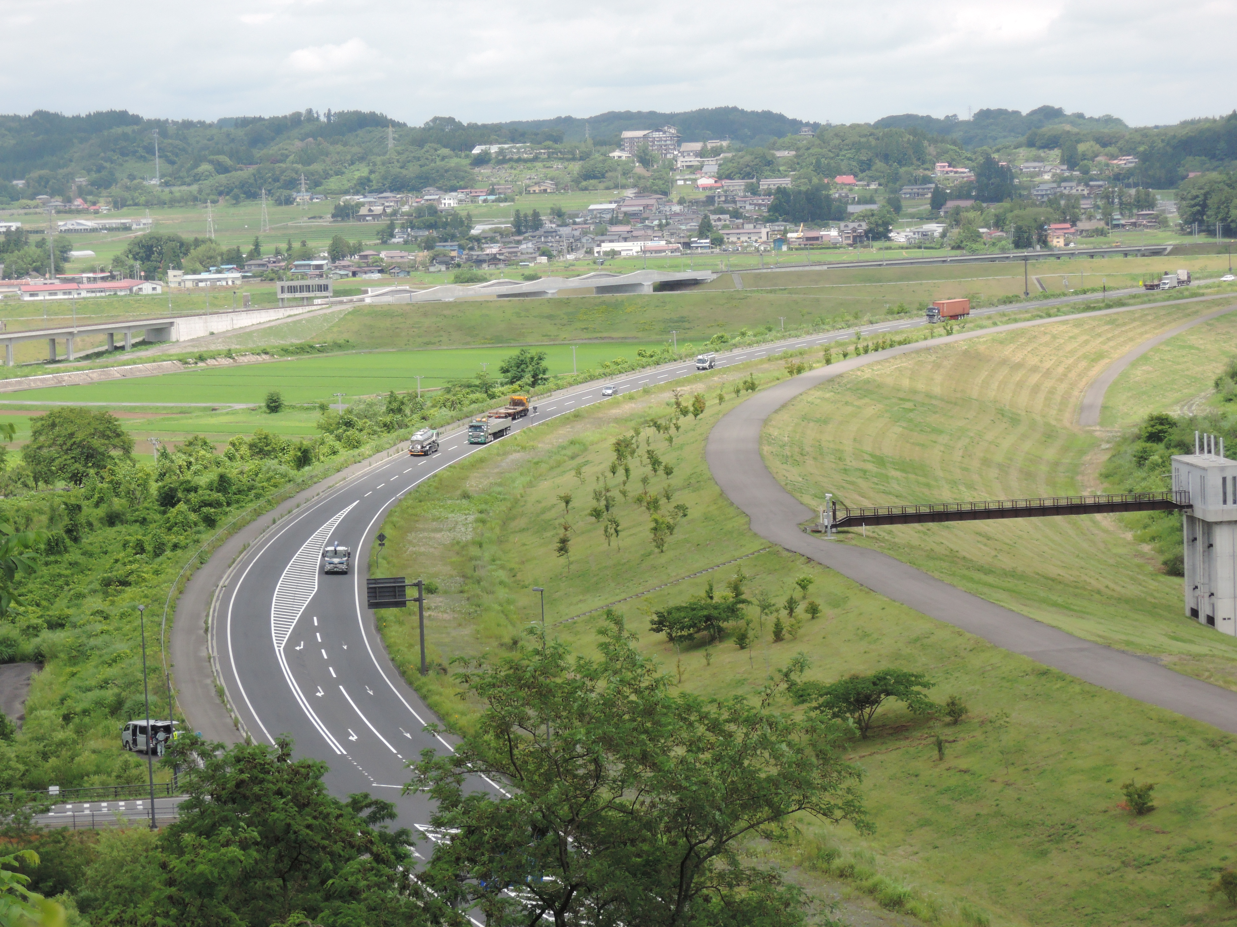 Japanese National Route 4 Hiraizumi BP (Hiraizumi, Iwate, Japan)